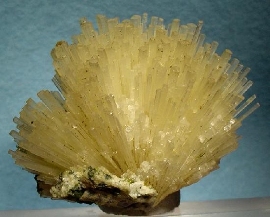 Scolecite Locality: Gneiss quarries, Arvigo, Calanca Valley, Misox (Mesolcina Valley), Grischun (Grisons; Graubünden), Switzerland (Locality at ) Size: 4.6 x 4.5 x 2.5 cm. An excellent and showy divergent spray of glassy scolecite needles aesthetically set in matrix covered with epidote from a famous Swiss locality - Arvigo, Grisons. This is a fine, two-sided specimen, which is not diminished by a few broken crystals, as you can see. Obtained by noted Alpine collector, Rolf Wein, in 1967. I have never seen such a nice scolecite spray from here on our market, at least in the US.